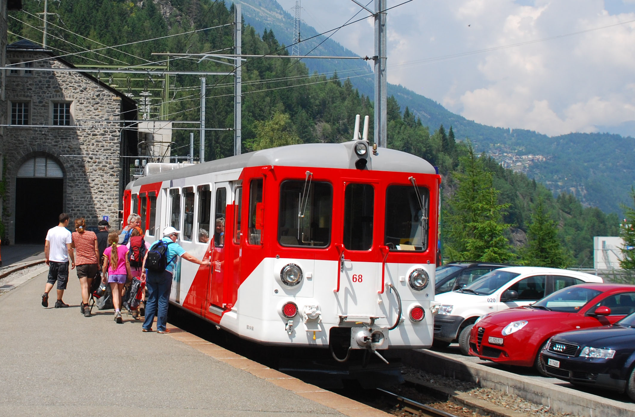 Bt 68 at Châtelard-VS station.